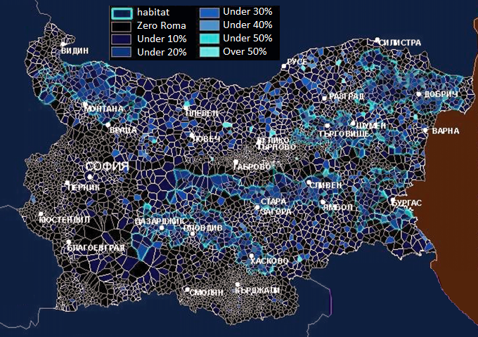 Distribution of Roma in Bulgaria according to self-identification at the 2001 census.